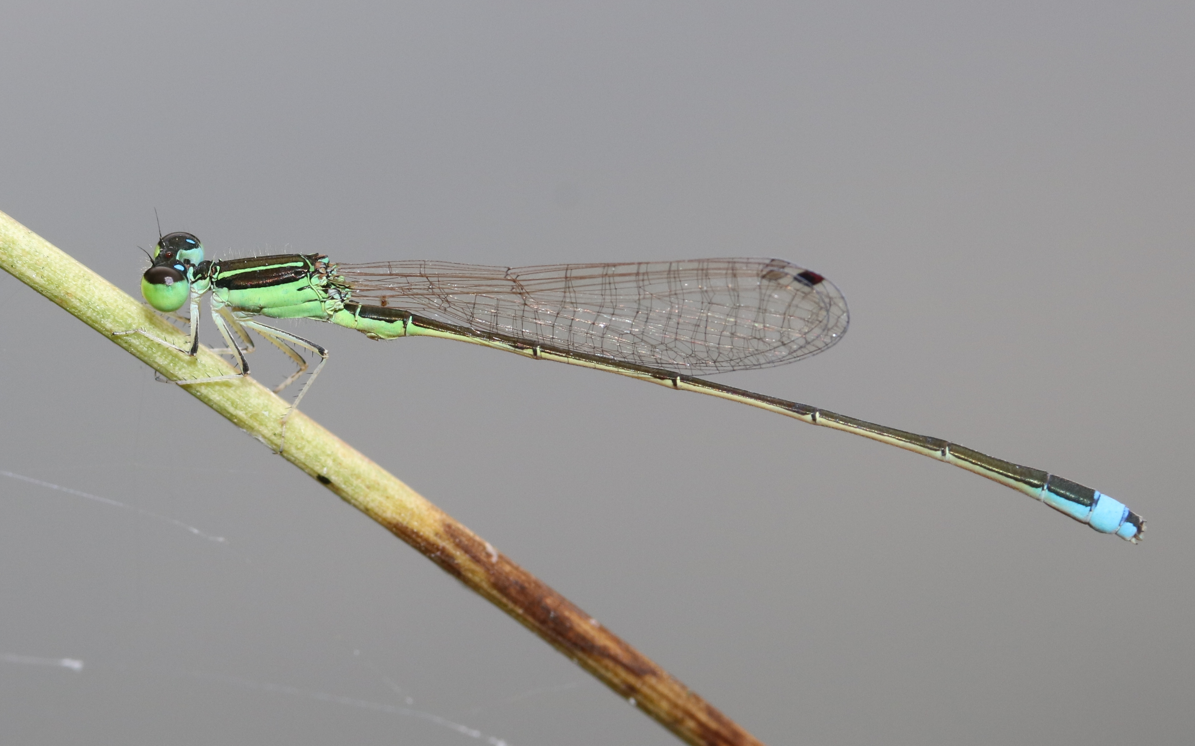 Ischnura asiatica, male in Aichi prefecture, Japan.